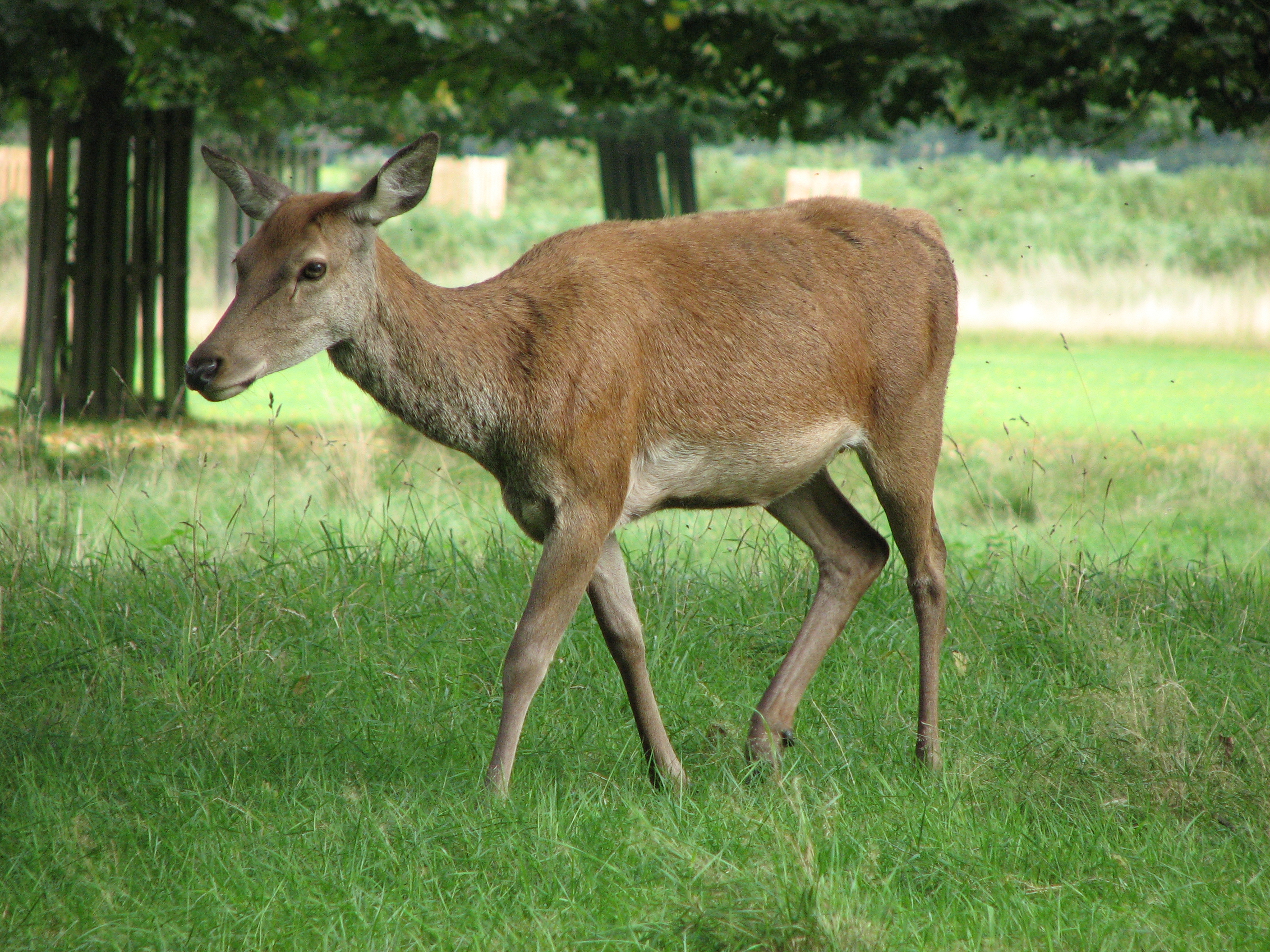 London - September 2008